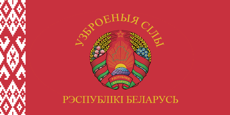 Flag of Belarus Armed Forces